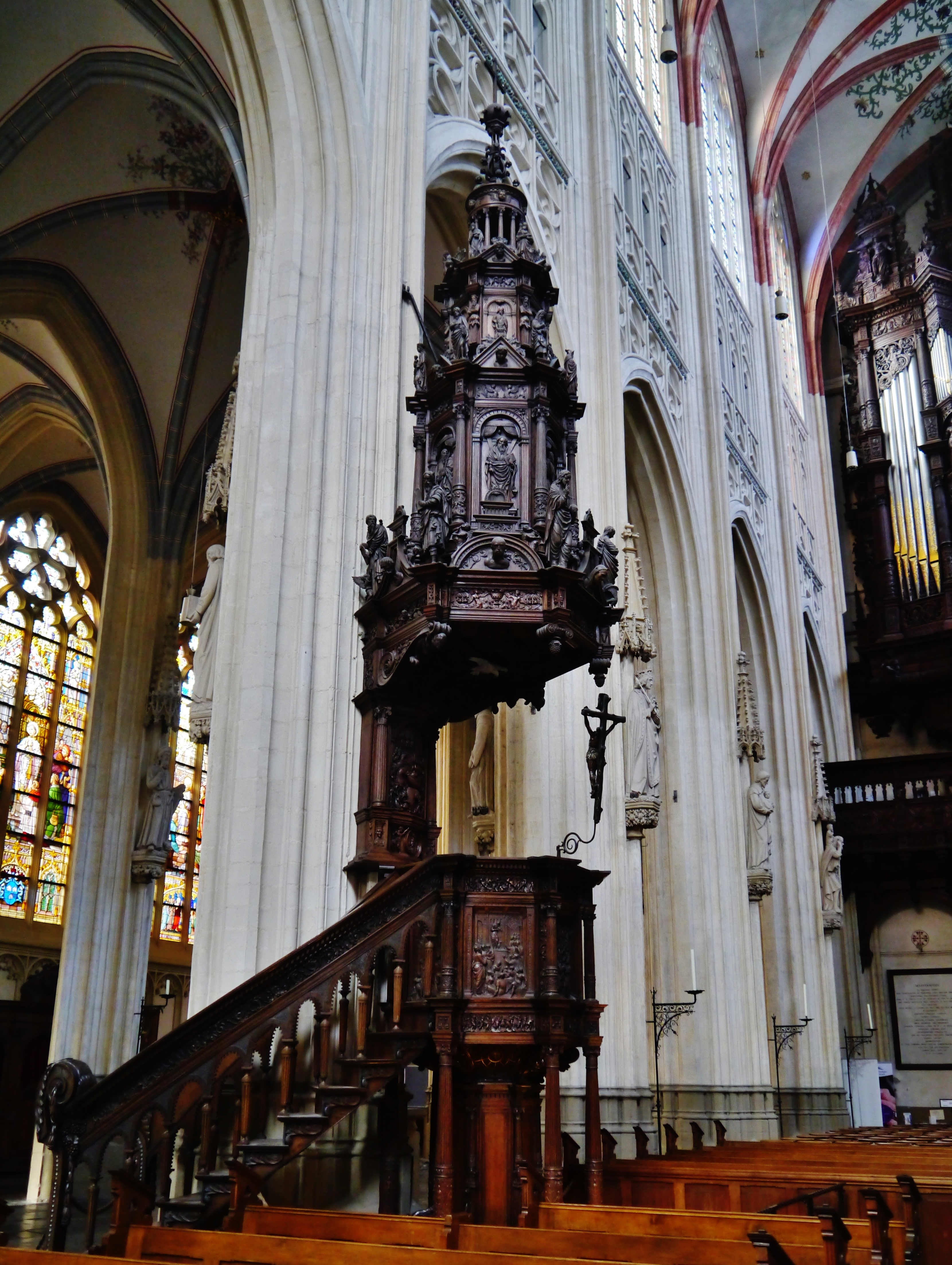 Pulpit of the Cathedral of Our Lady, 's-Hertogenbosch, Province of North Brabant, Netherlands